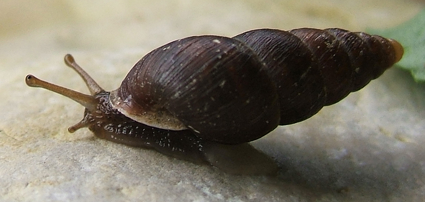 Ena montana (Draparnaud, 1801), Gastropoda (Stylommatophora), S Germany: Bayern, Kreis Bad Tölz, Dainingsbach 1 km NW Walchensee, 900 m